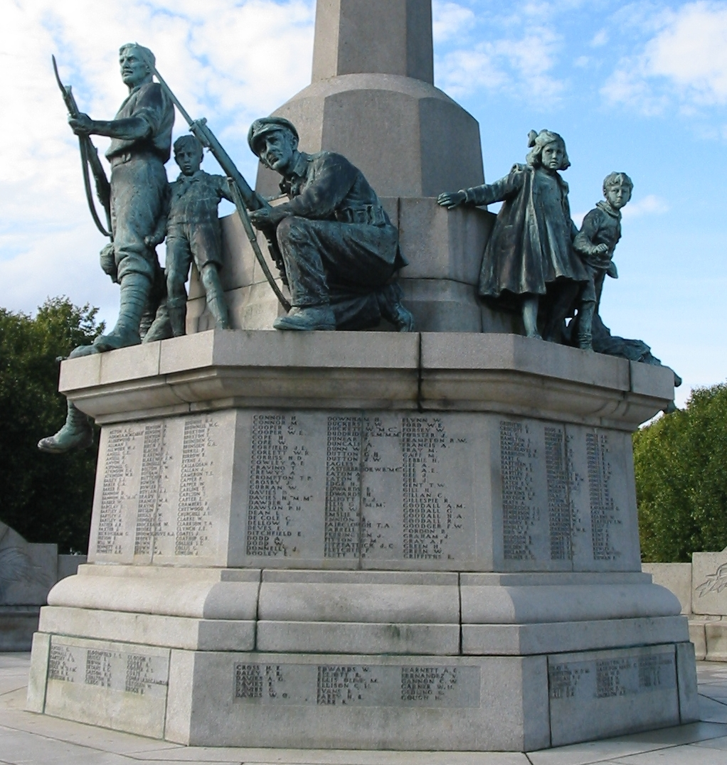 Liverpool